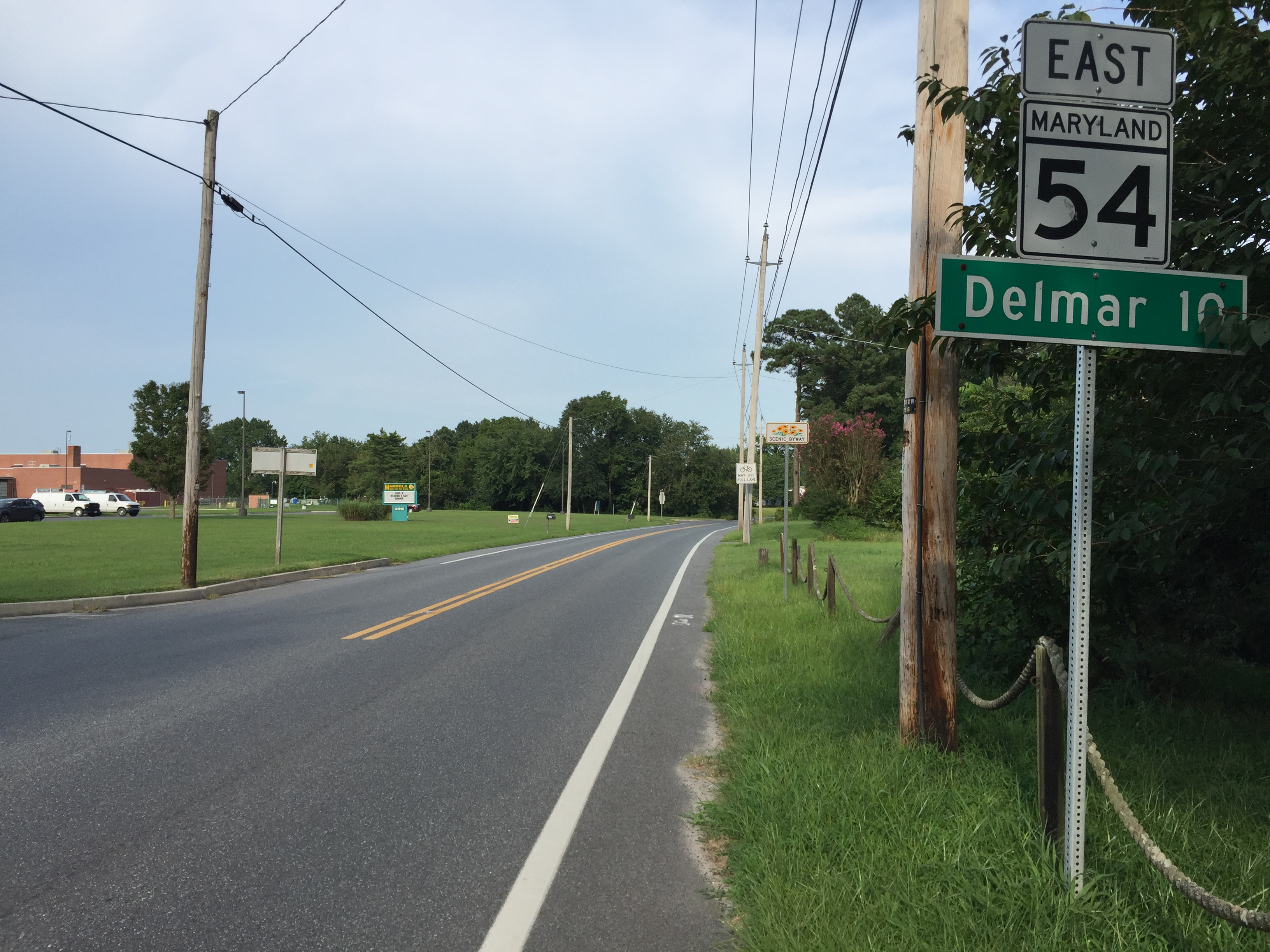 View east along Maryland State Route 54 (Delmar Road) at Maryland Route 313 (Sharptown Road) just east of Mardela Springs in Wicomico County, Maryland